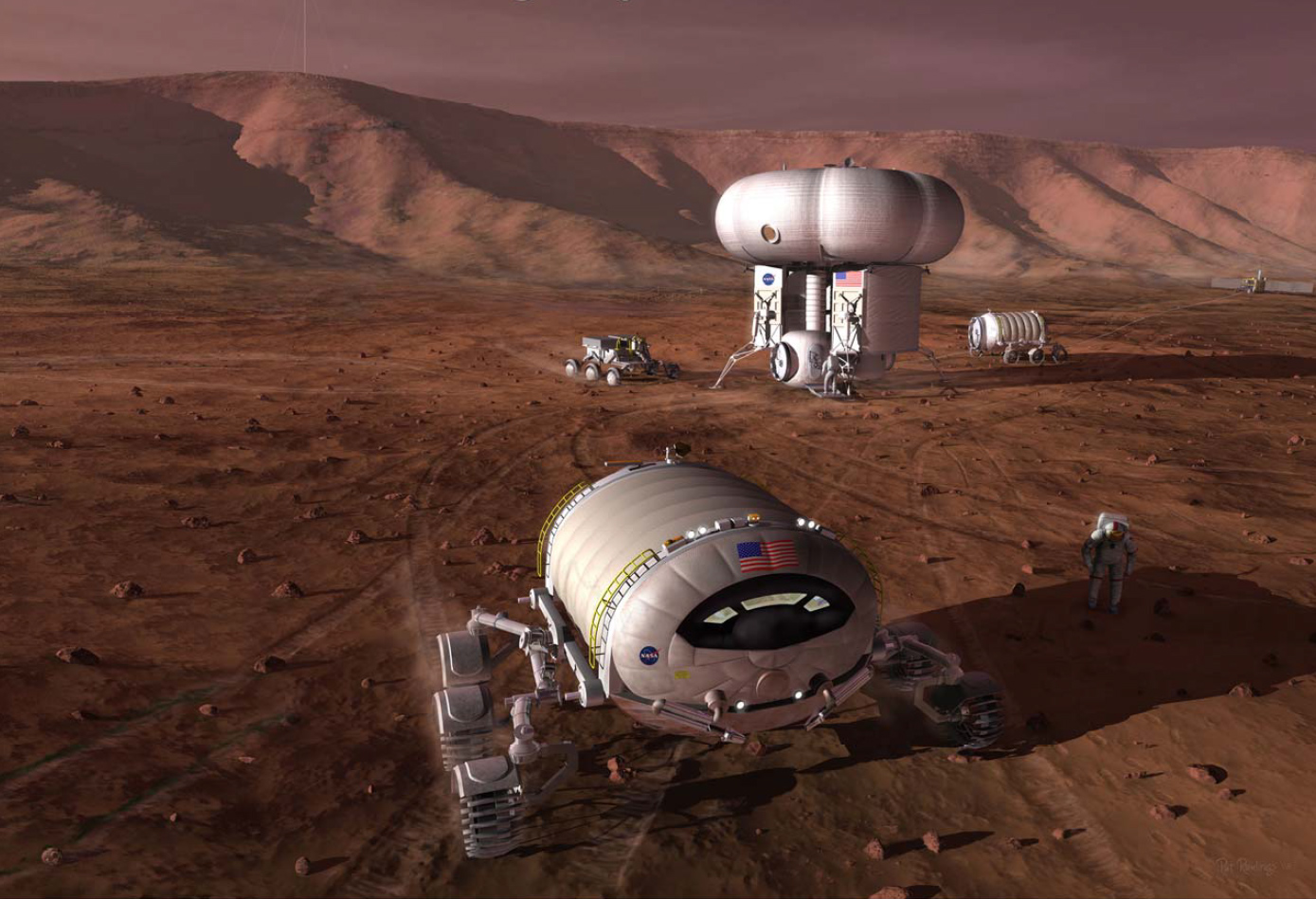 An artist's concept of a potential mars outpost.